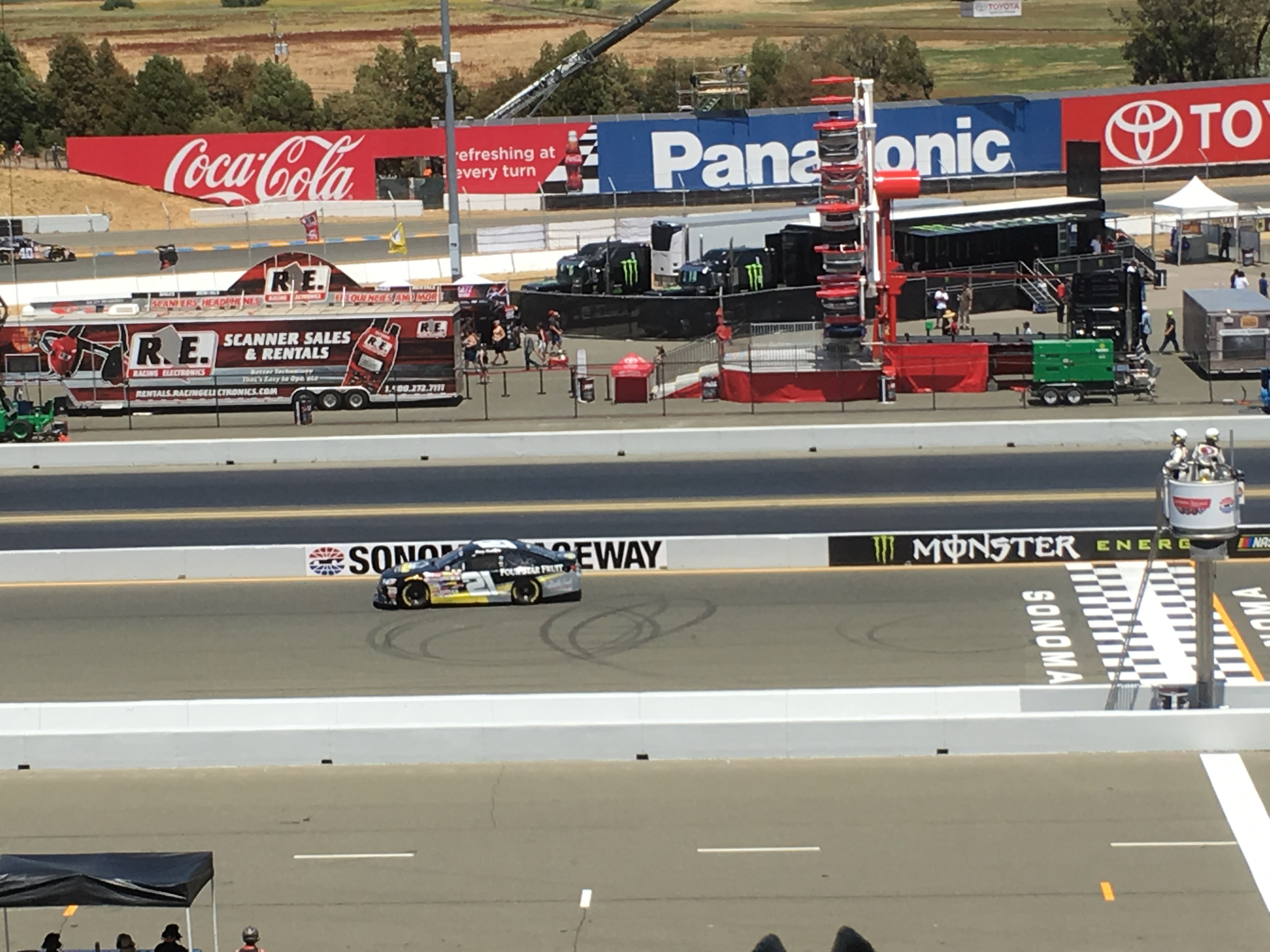 Blaine Perkins during the 2017 Carneros 200.